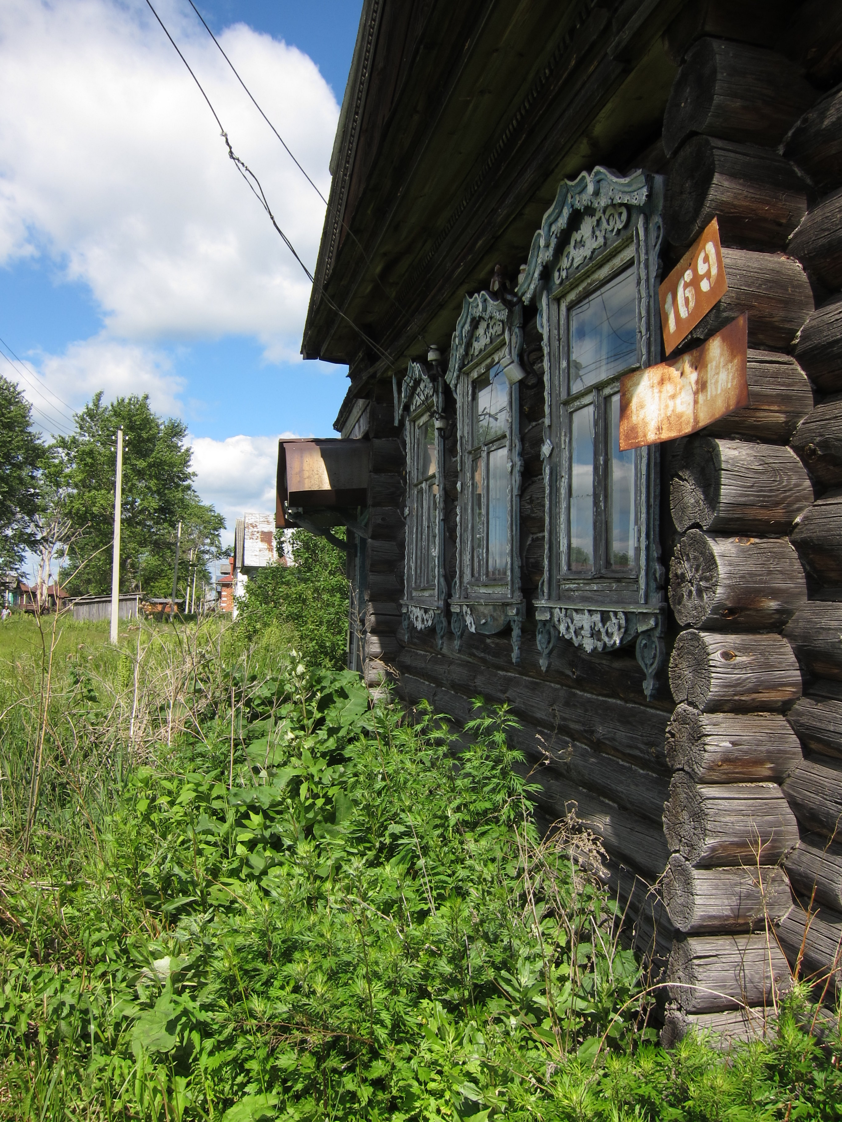 House in village Maloe Tumanovo, Nizhny Novgorod Oblast.